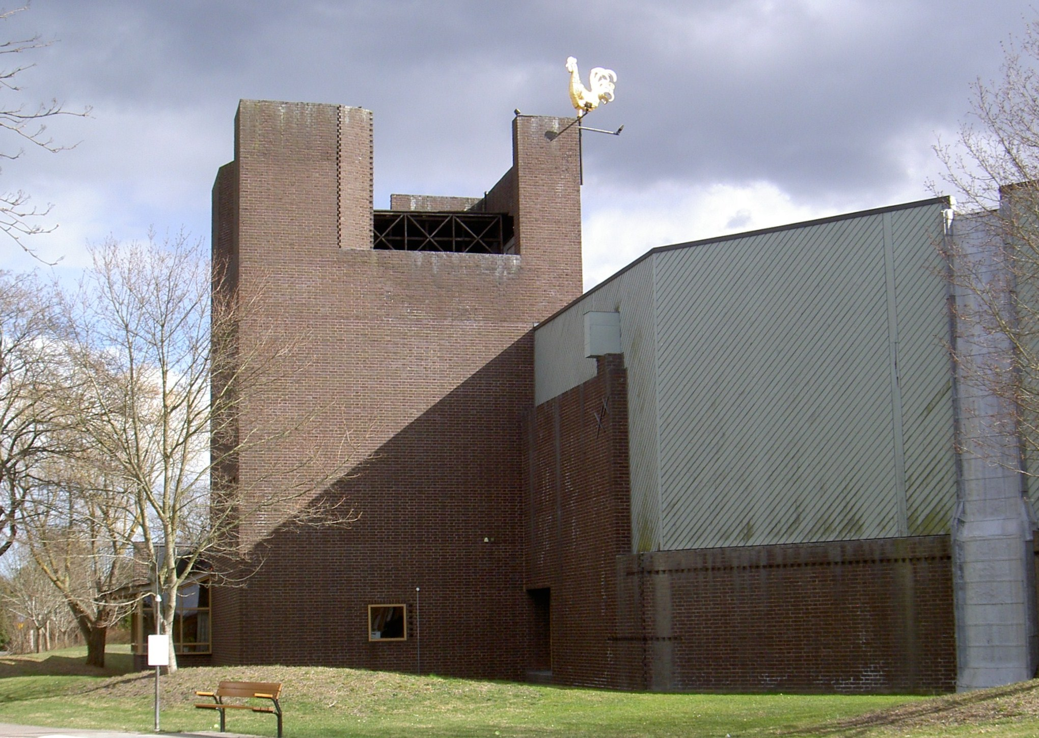 Sankta Birgitta church.